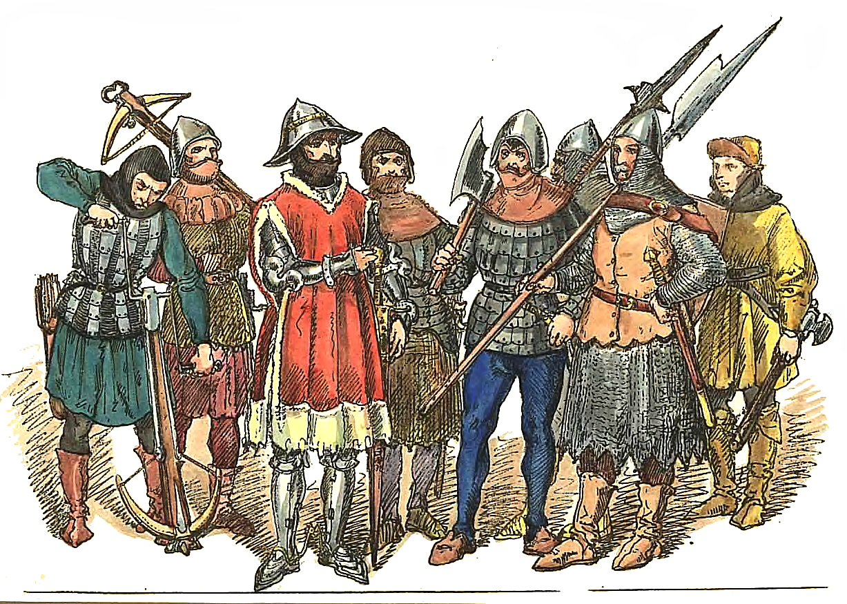 Polish soldiers, 1447-1492. From left: two crossbowmen, three heavy foot-soldiers, two halberdiers, and an axeman.